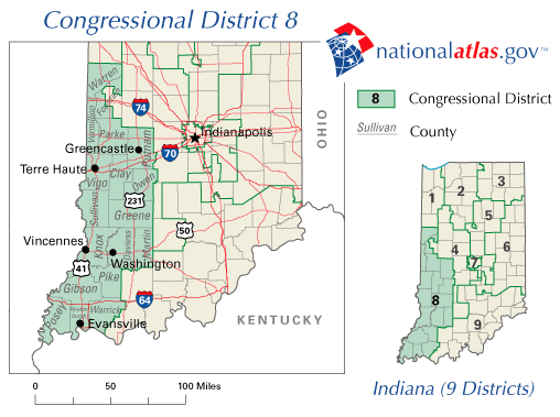 Congressional district maps of the 108th Congress